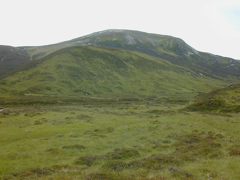 Glen of the Allt Coire Bhearnaist Grassy floor to the glen with encroaching heather. Sheilings close by indicate that this was once well tended grazing. Carn Bhac rises beyond.